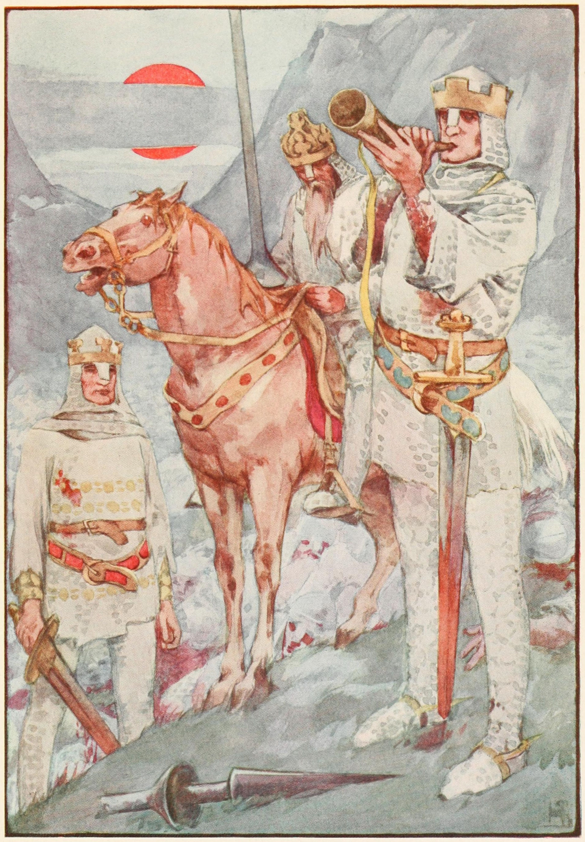 Illustration from a collection of myths.